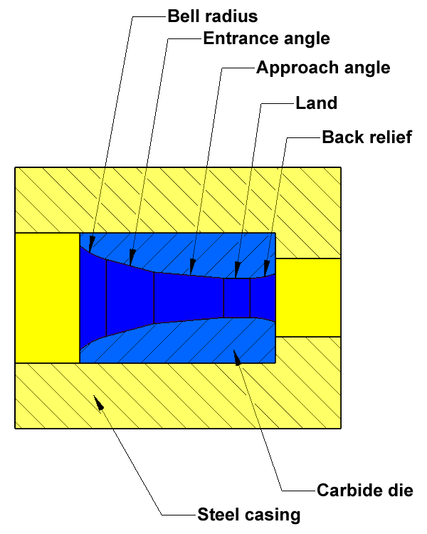 A diagram of a carbide wire drawing die. Based on similar drawing from Degarmo, E. Paul; Black, J T.; Kohser, Ronald A. (2003), Materials and Processes in Manufacturing (9th ed.), Wiley, ISBN 0-471-65653-4, figure 19-58.